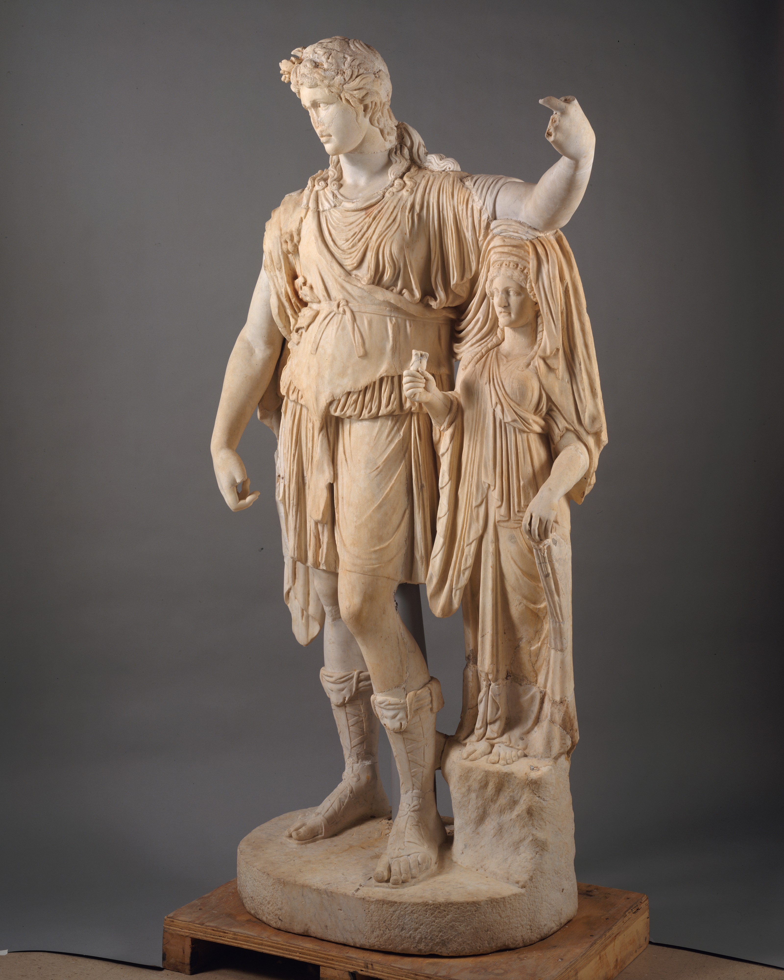 Roman; Statue of Dionysos leaning on a female figure ("Hope Dionysos"); Stone Sculpture